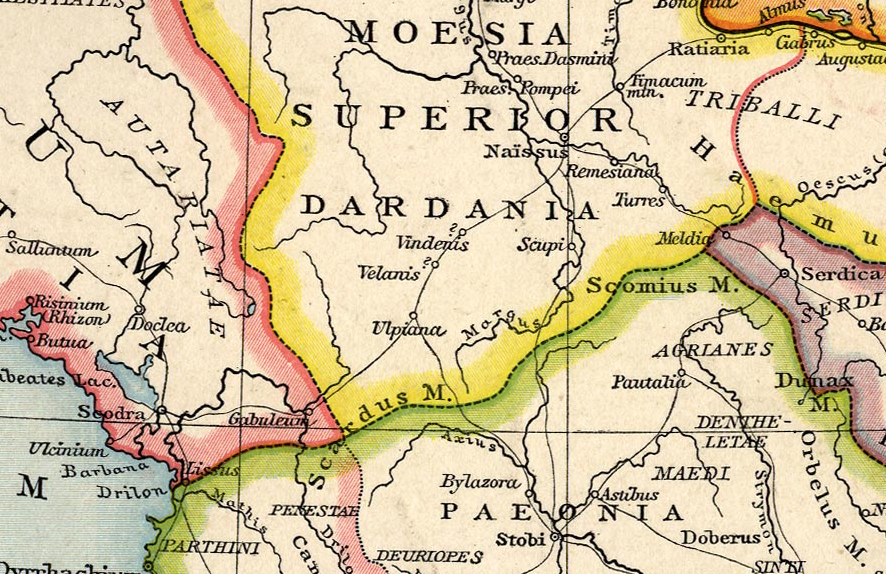 Dardania inside the Roman province of Moesia Superior,part of Old historical map from Droysens Historical Atlas, 1886